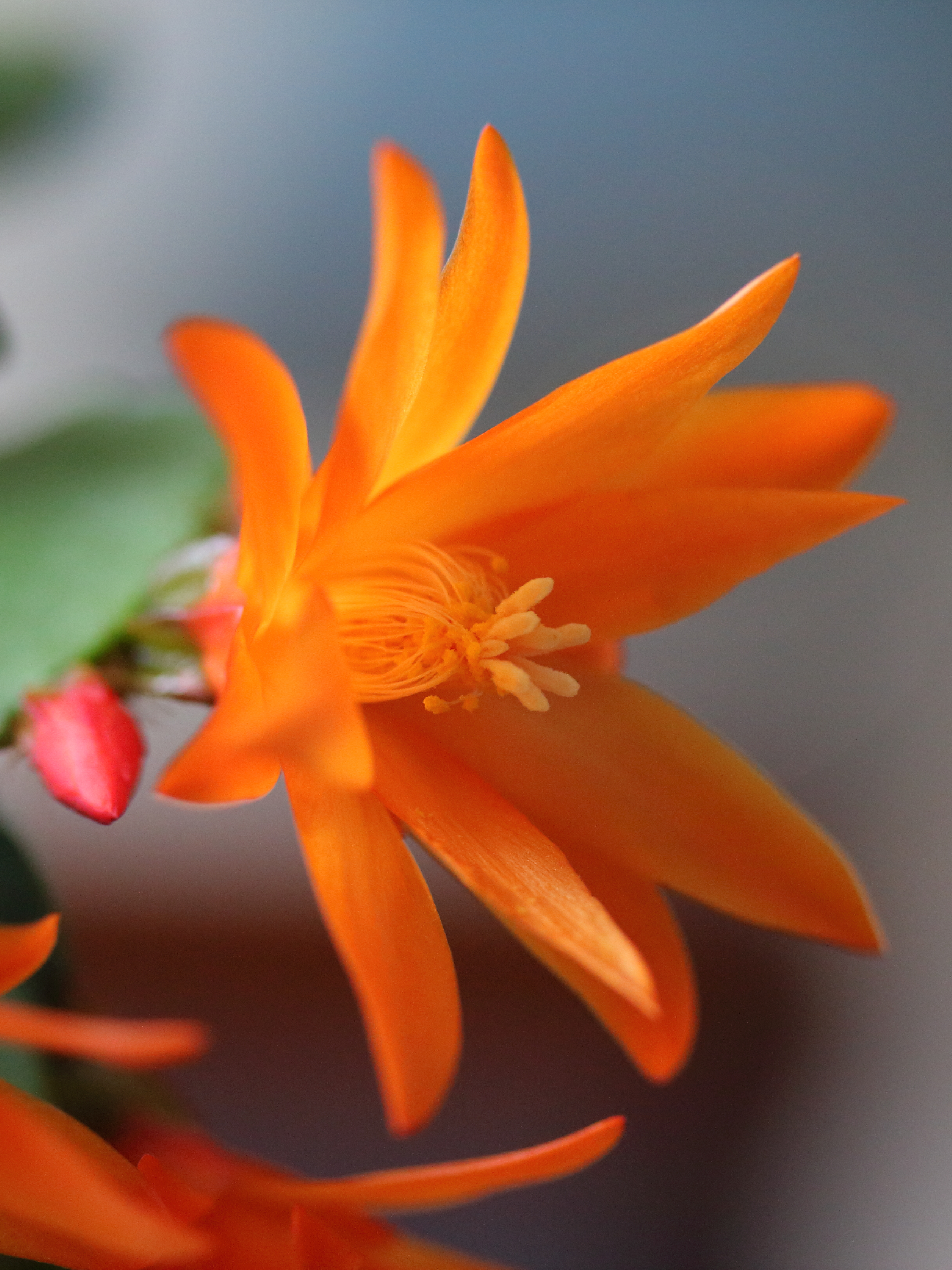 Christmas cacti in the Netherlands are mainly kept as a houseplant.